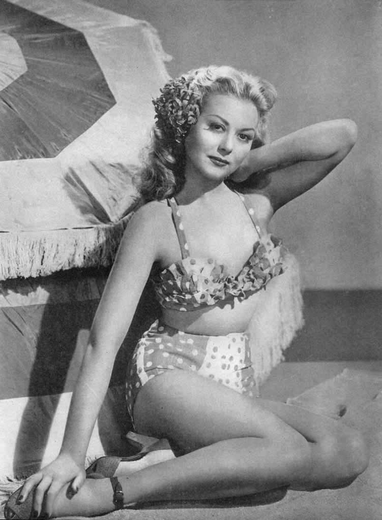 Publicity photo of Adele Mara for Argentinean Magazine. (Printed in USA)